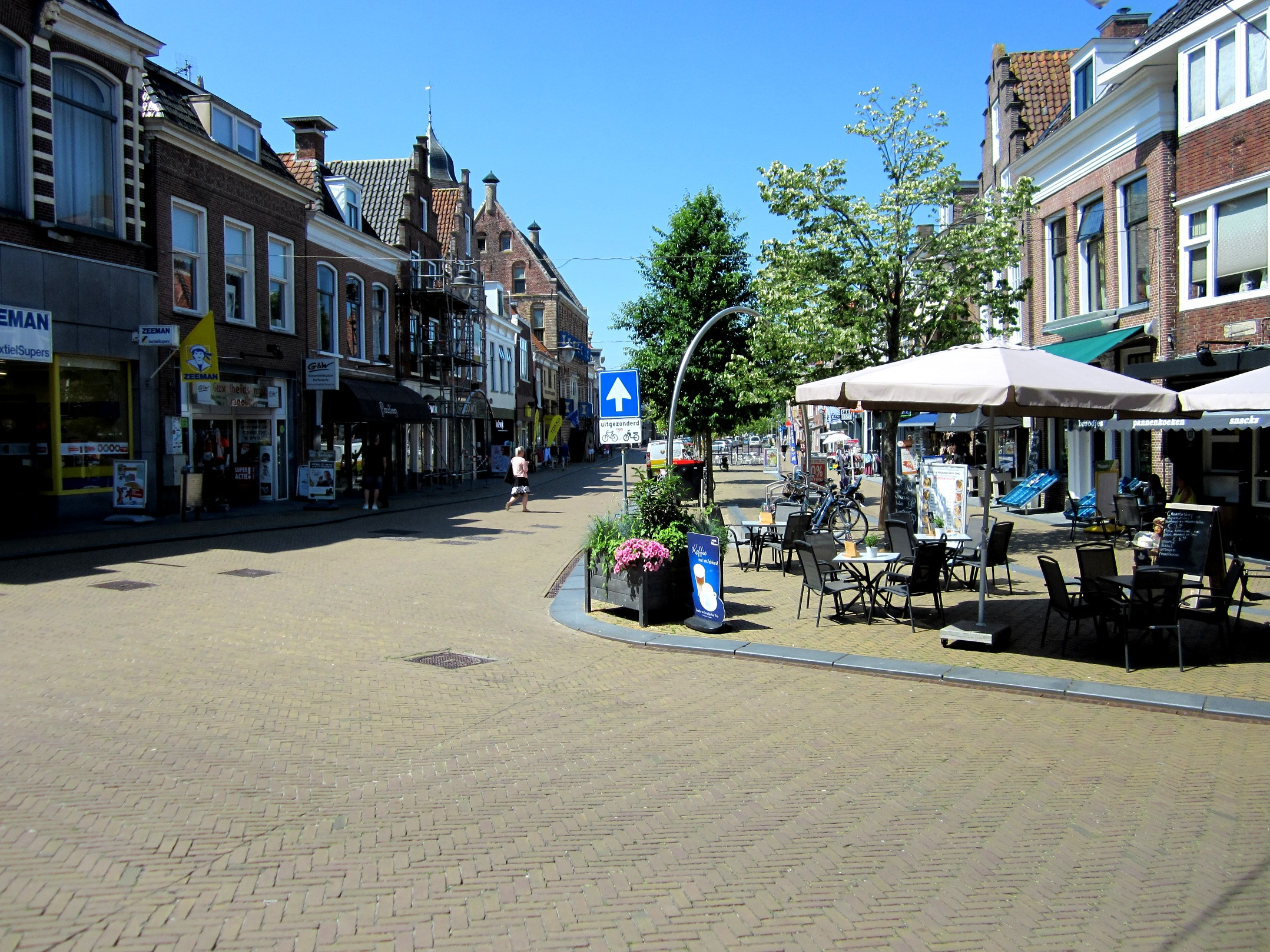 Foarstrjitte/Voorstraat in Frjentsjer/Franeker, Friesland, the Netherlands.